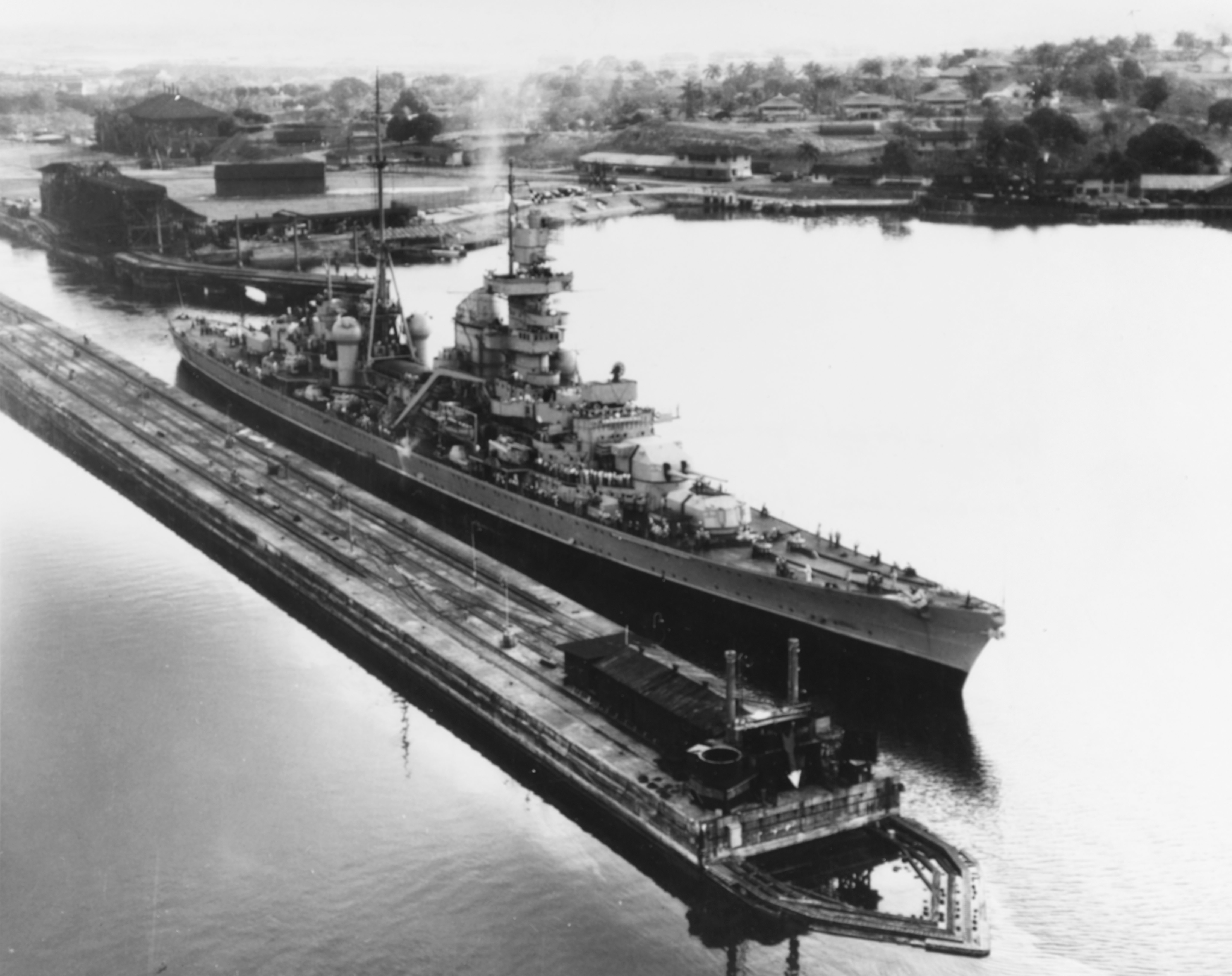 USS Prinz Eugen (IX-300), a former German heavy cruiser, passing through the Gatun locks, Panama Canal, in March 1946.